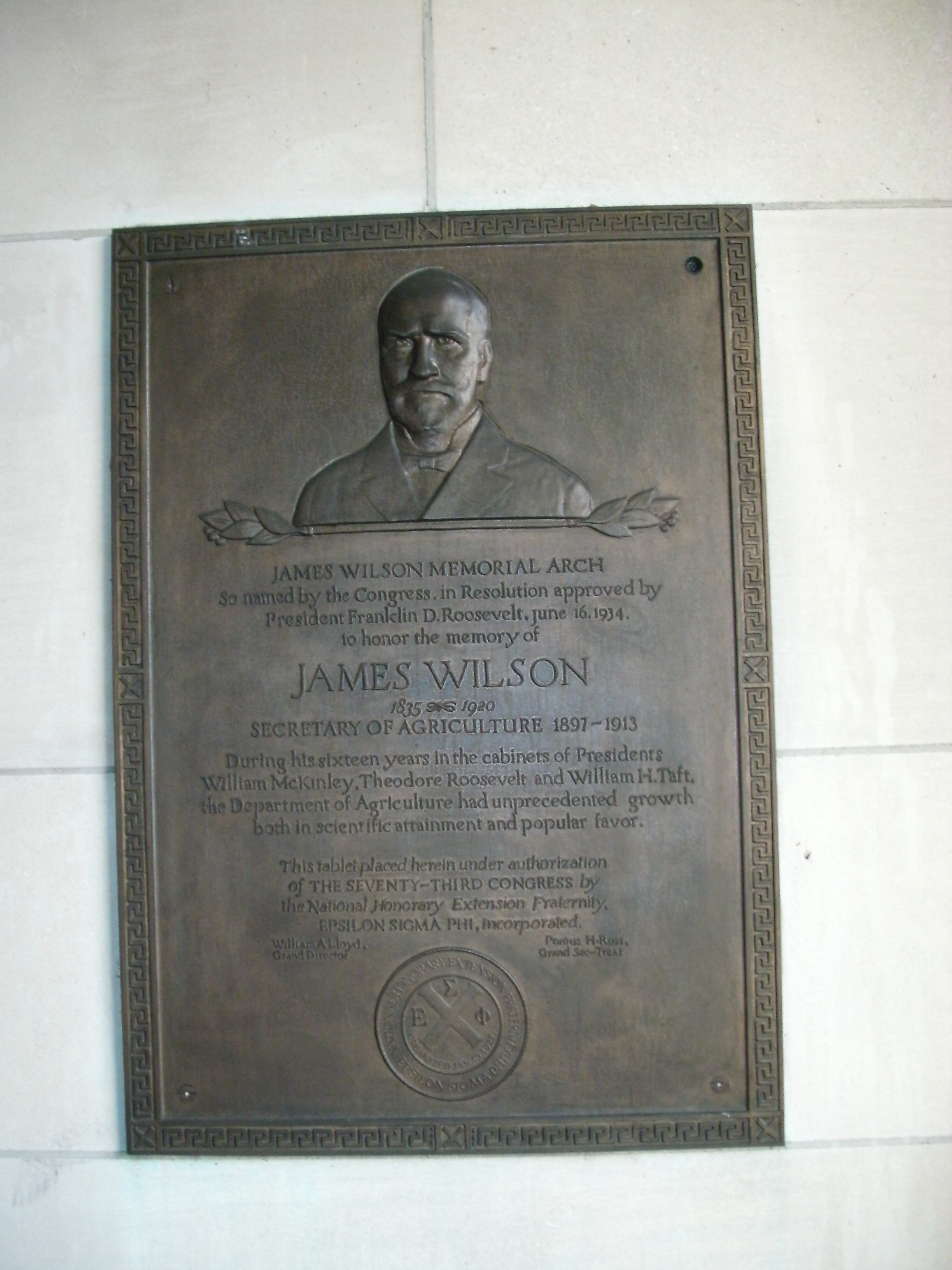 U.S. Department of Agriculture South Building, 14th St. and Independence Ave., SW SW